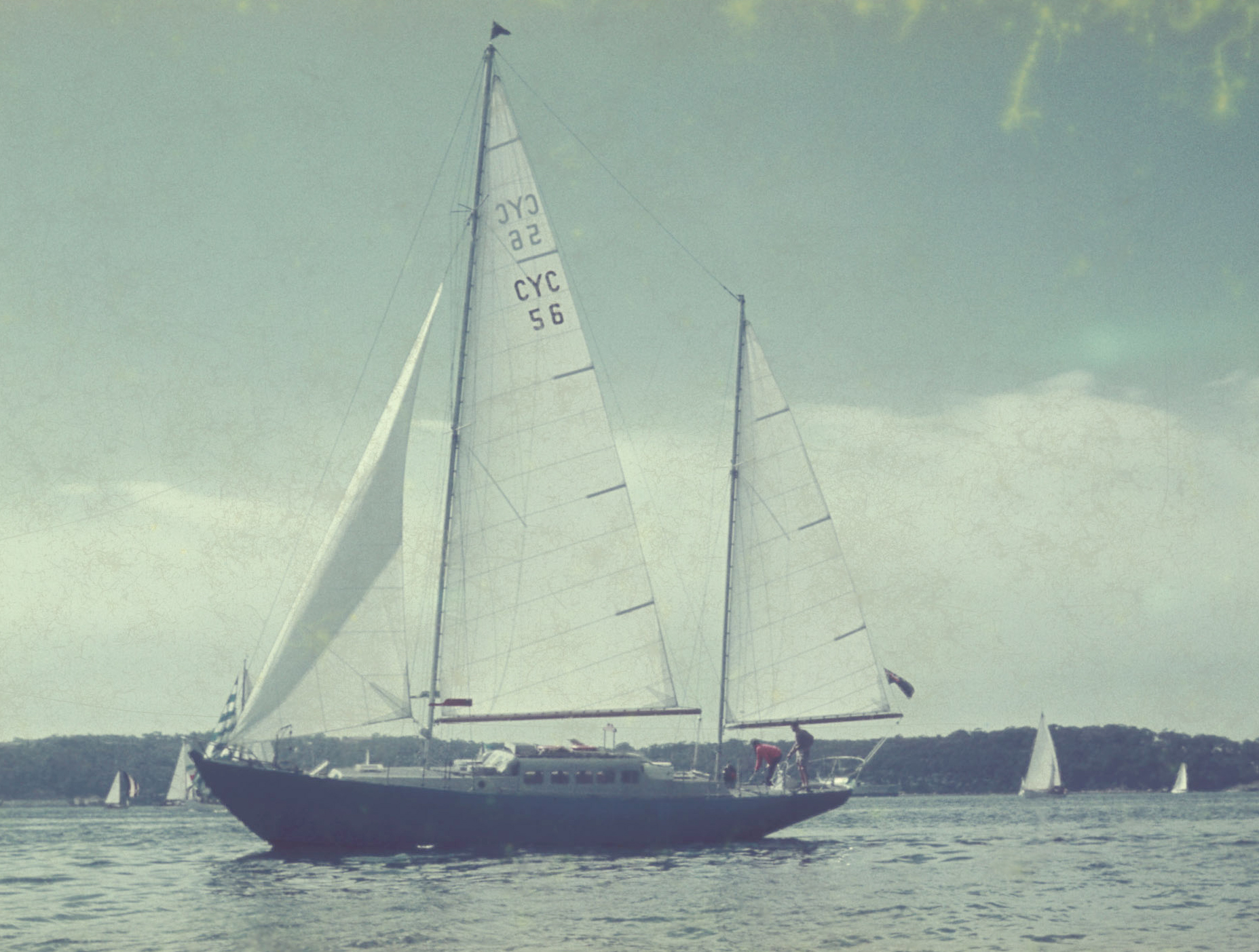 Cythera undersail, Sydney, Australia